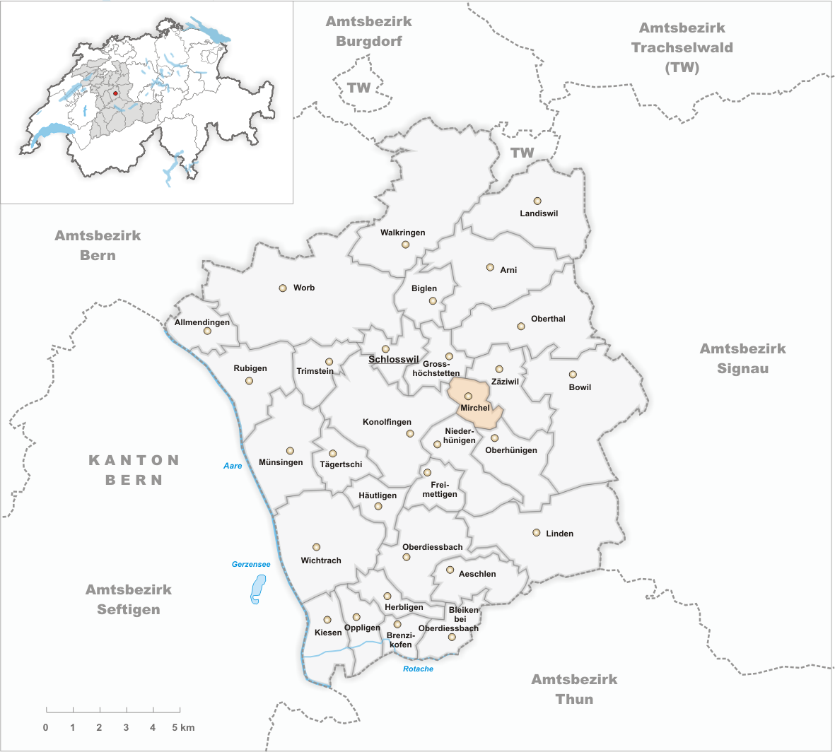 Municipality Mirchel